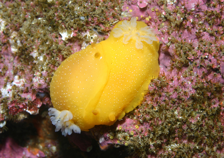 The sea slugs (Doriopsilla albopunctata) are mating. Like most nudibranchs, they are simultaneous hermaphrodites, having both male and female genitalia at the same time.